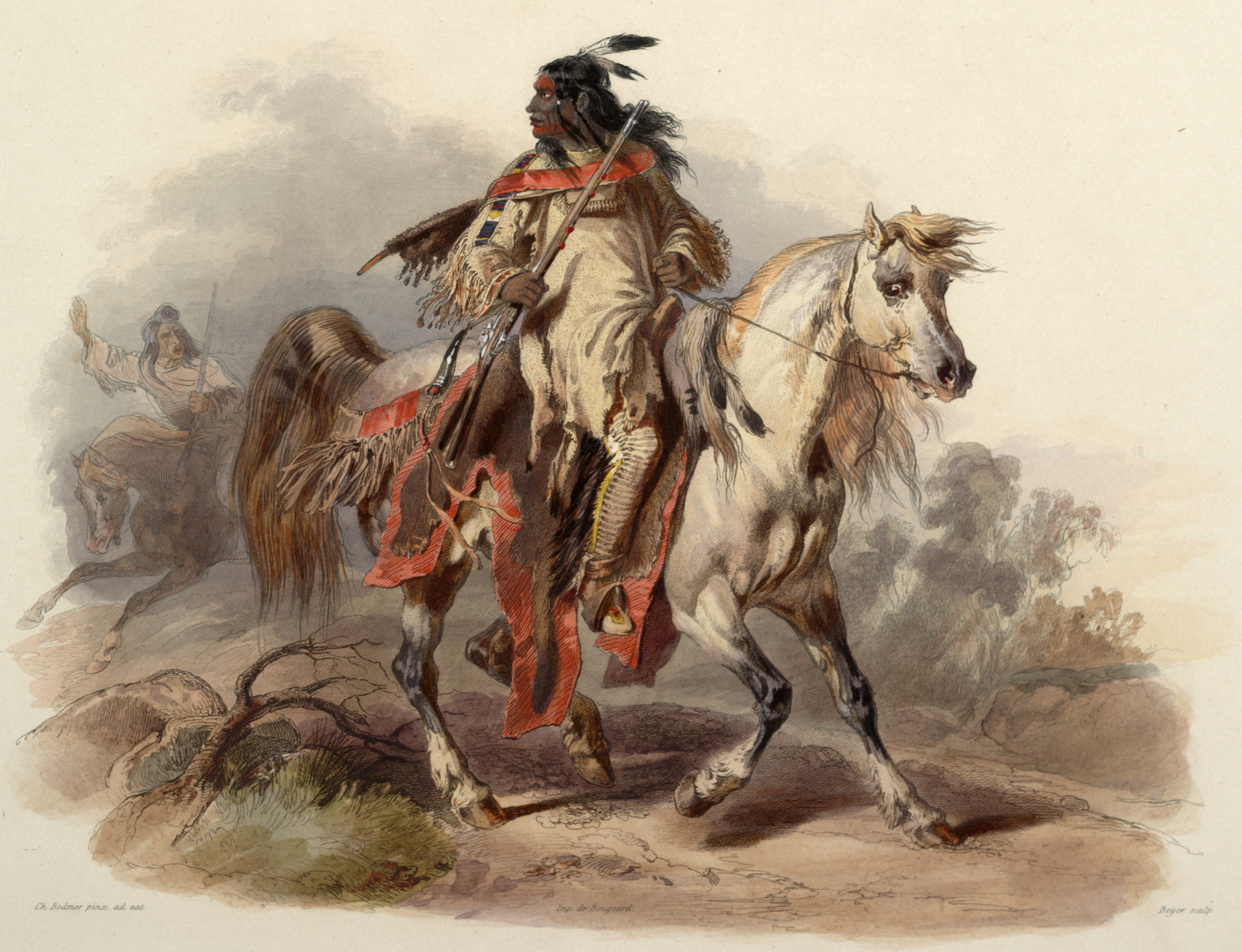 A painting from life by Karl Bodmer of a Blackfoot warrior ca. 1840-1843.